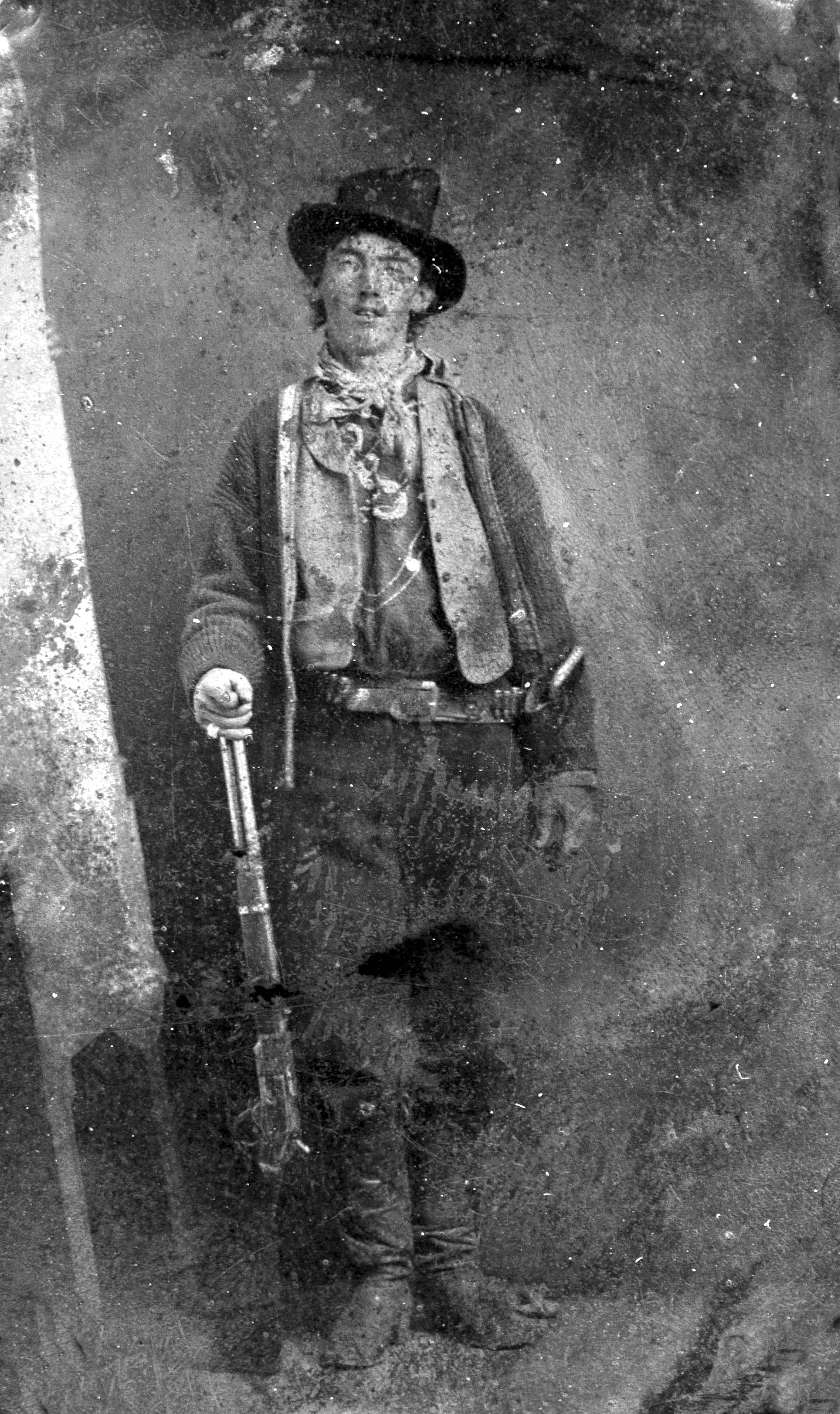 Portrait of American gunman Billy the Kid (1859–1881). Image mirrored on vertical axis to correct widely-seen flopped tintype. Cartridge loading gate on Winchester Model 1873 lever action rifle is on the right side of the receiver.